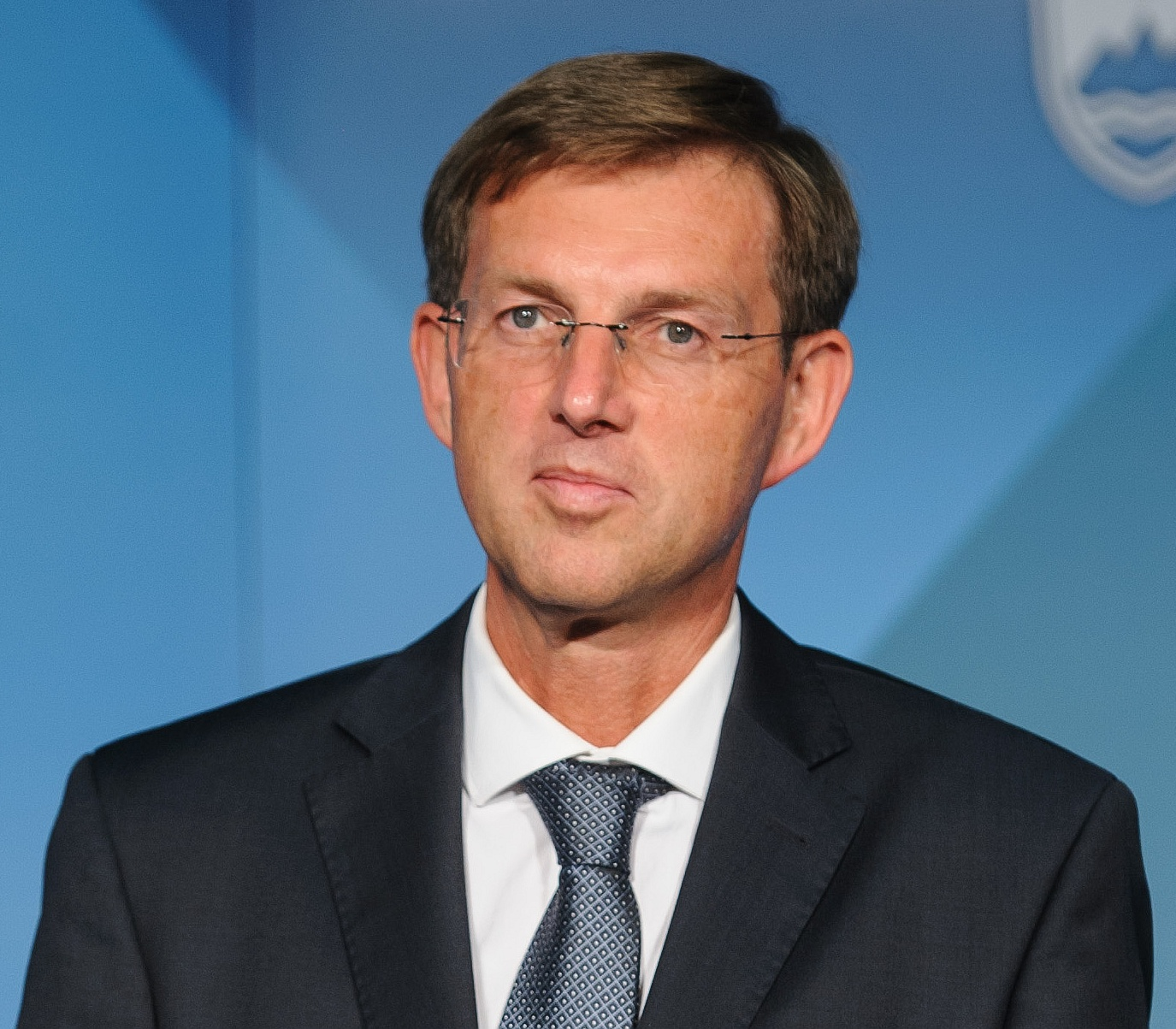 Miro Cerar, President of Slovenian government (2014)